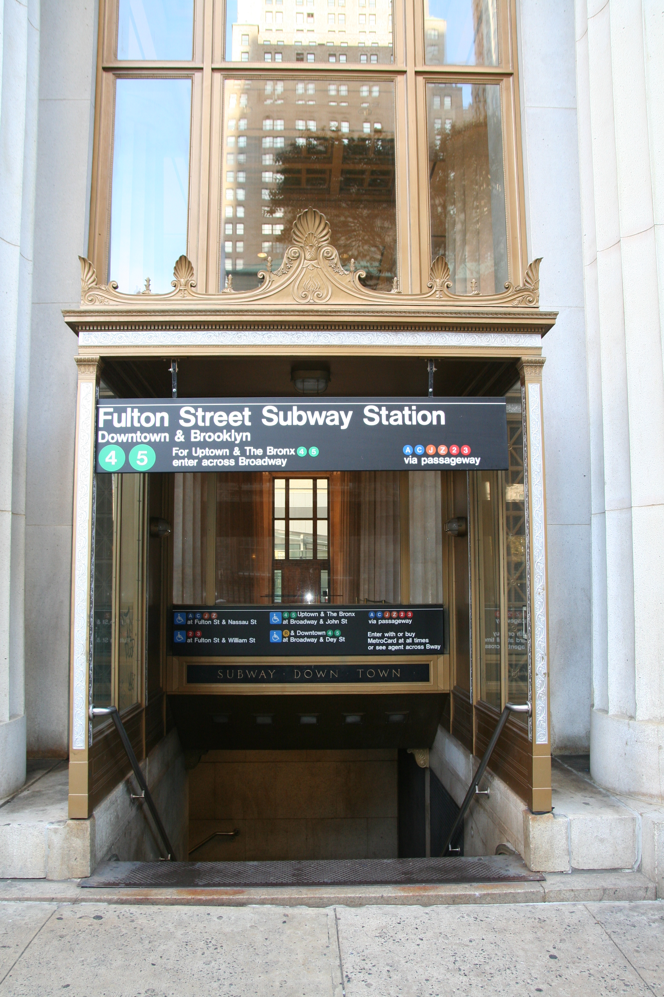 Entrance to Fulton Center through 195 Broadway building on Fulton St.